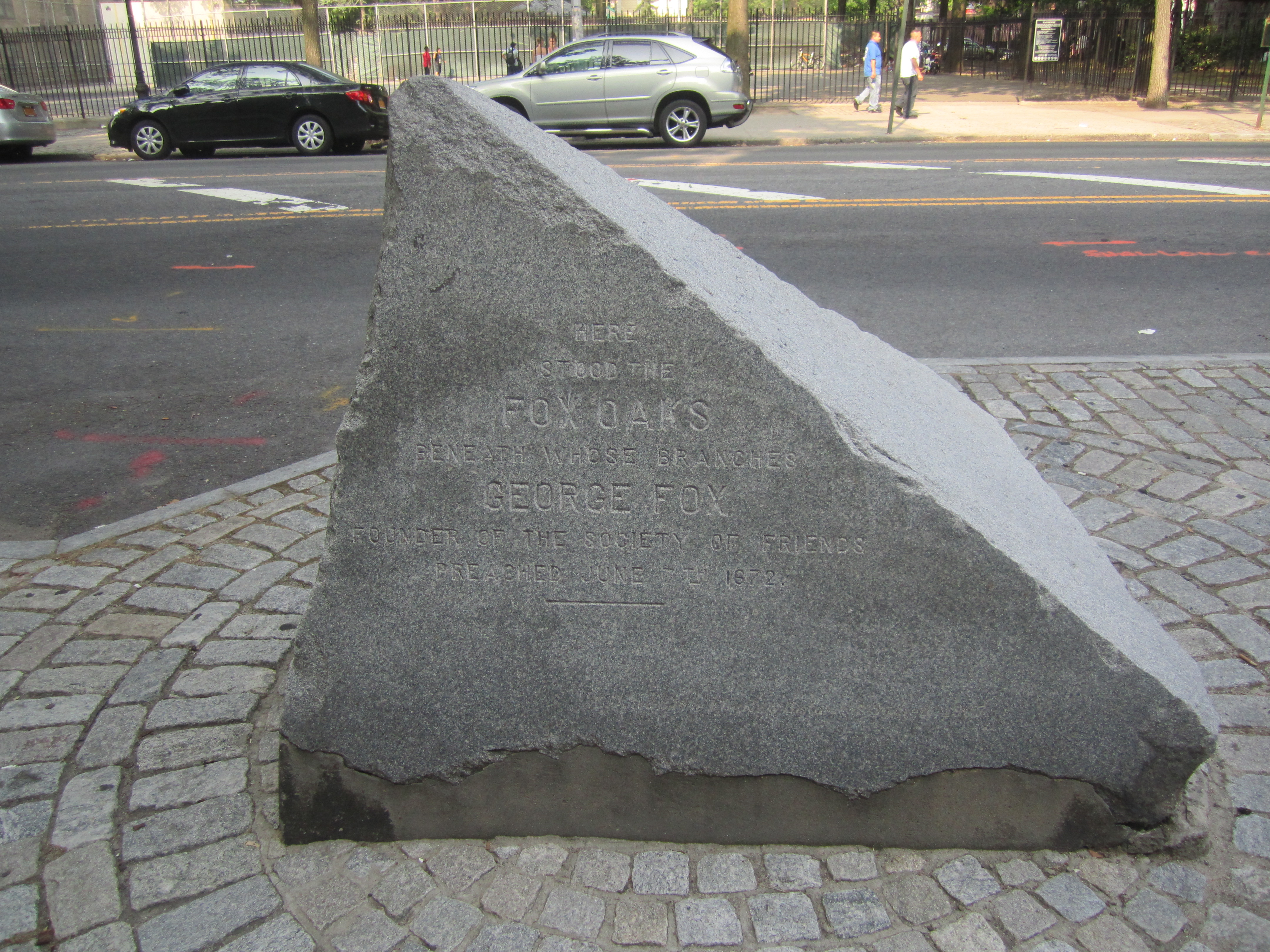 I took photo with Canon camera in Queens, NY, of stone commemorating 1672 sermon by Quaker Church founder George Fox.